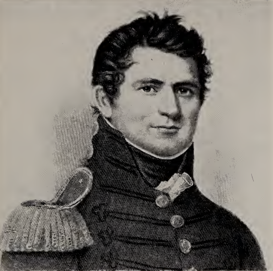 Portrait of Crawford circa 1812, dressed in Captain of Artillery uniform.